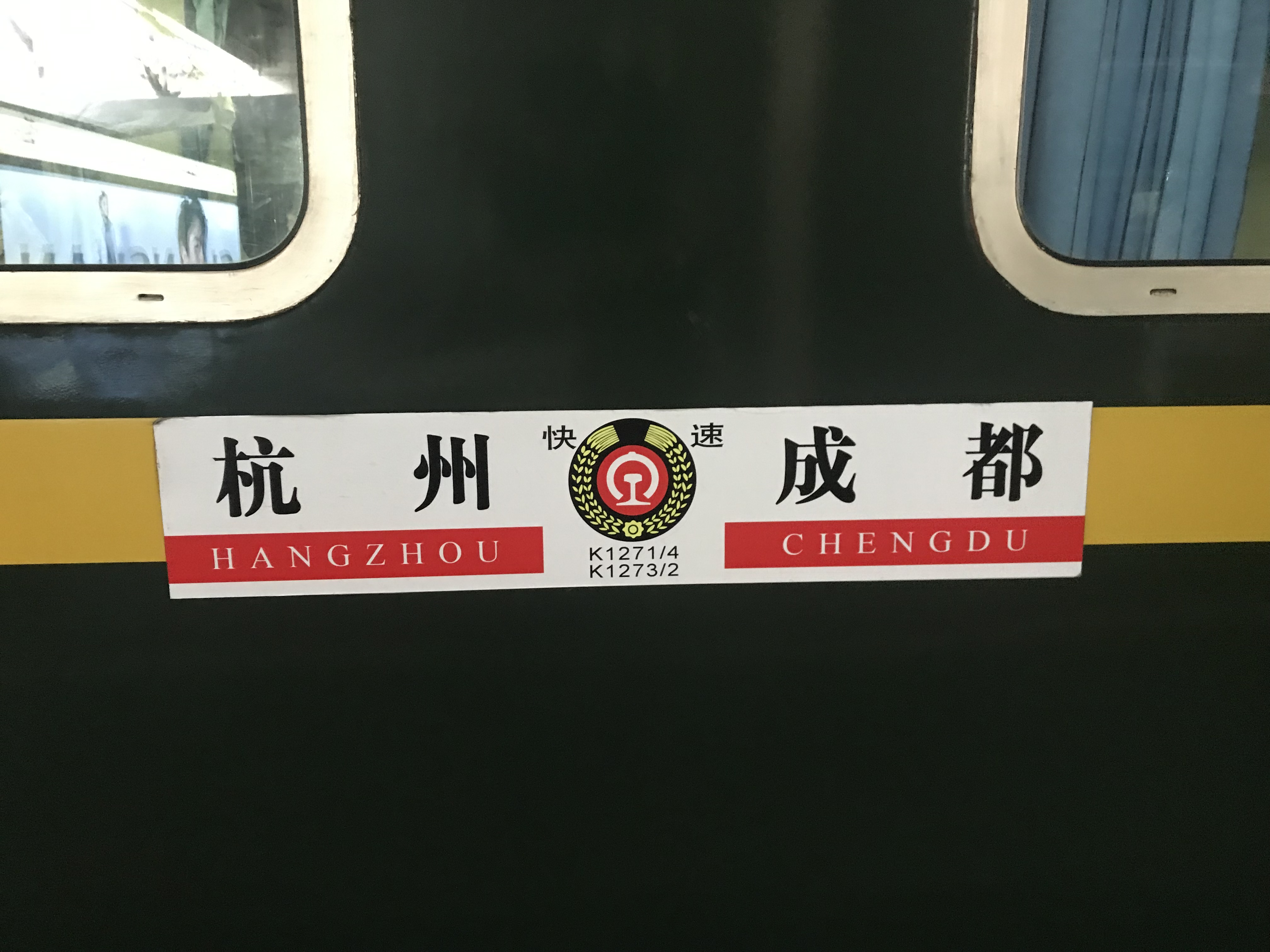 Taken at Hangzhou Station